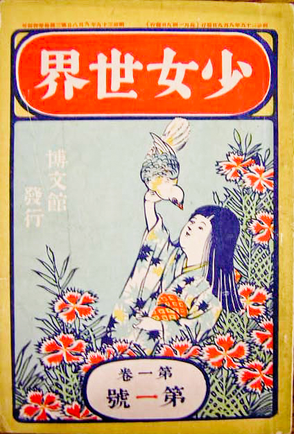 Cover of the first issue of Shōjo Sekai